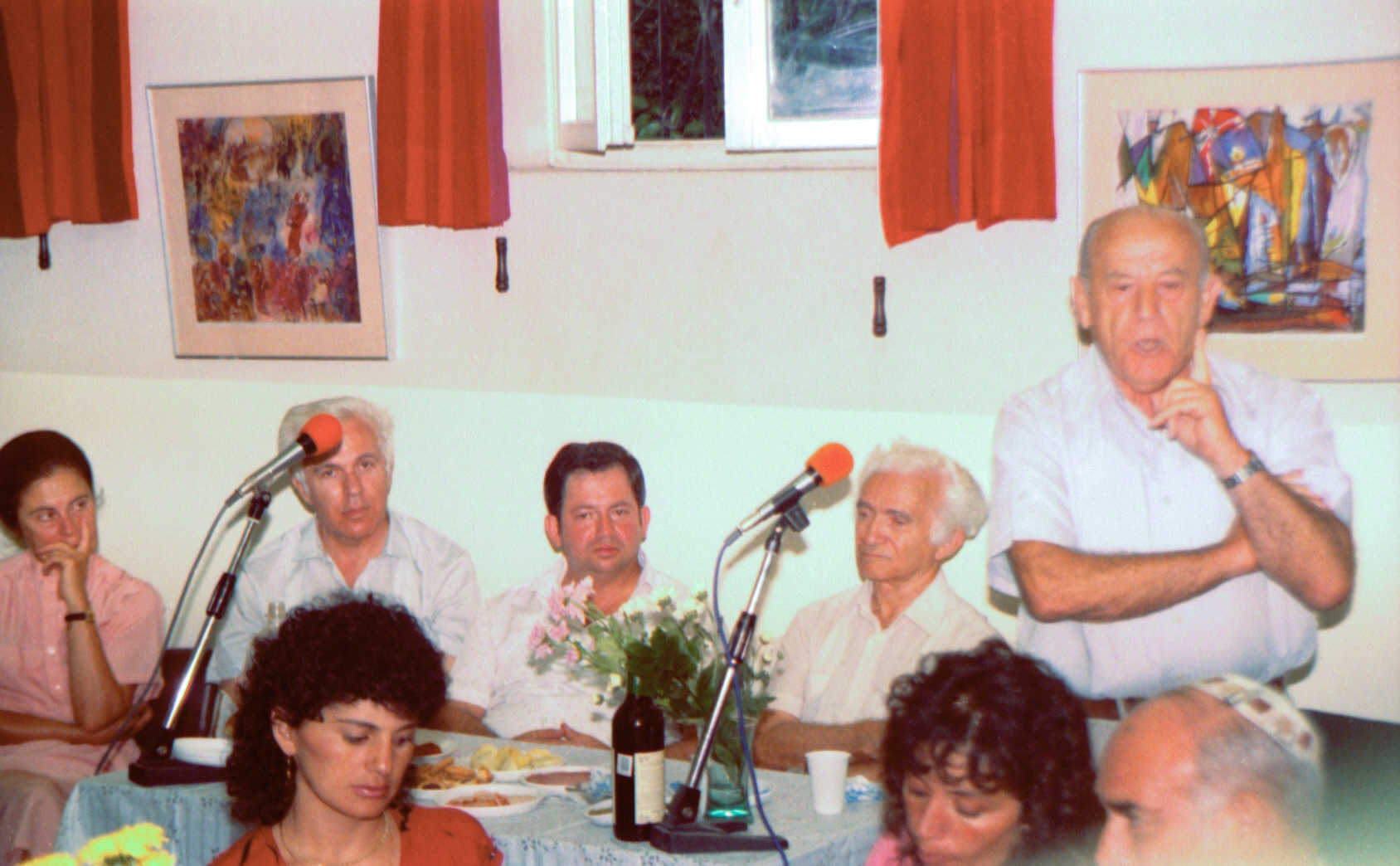 Yosef Almogi, Zalman Heyn, Yehiel Leket, Baruch Haklai and Ora Namir.